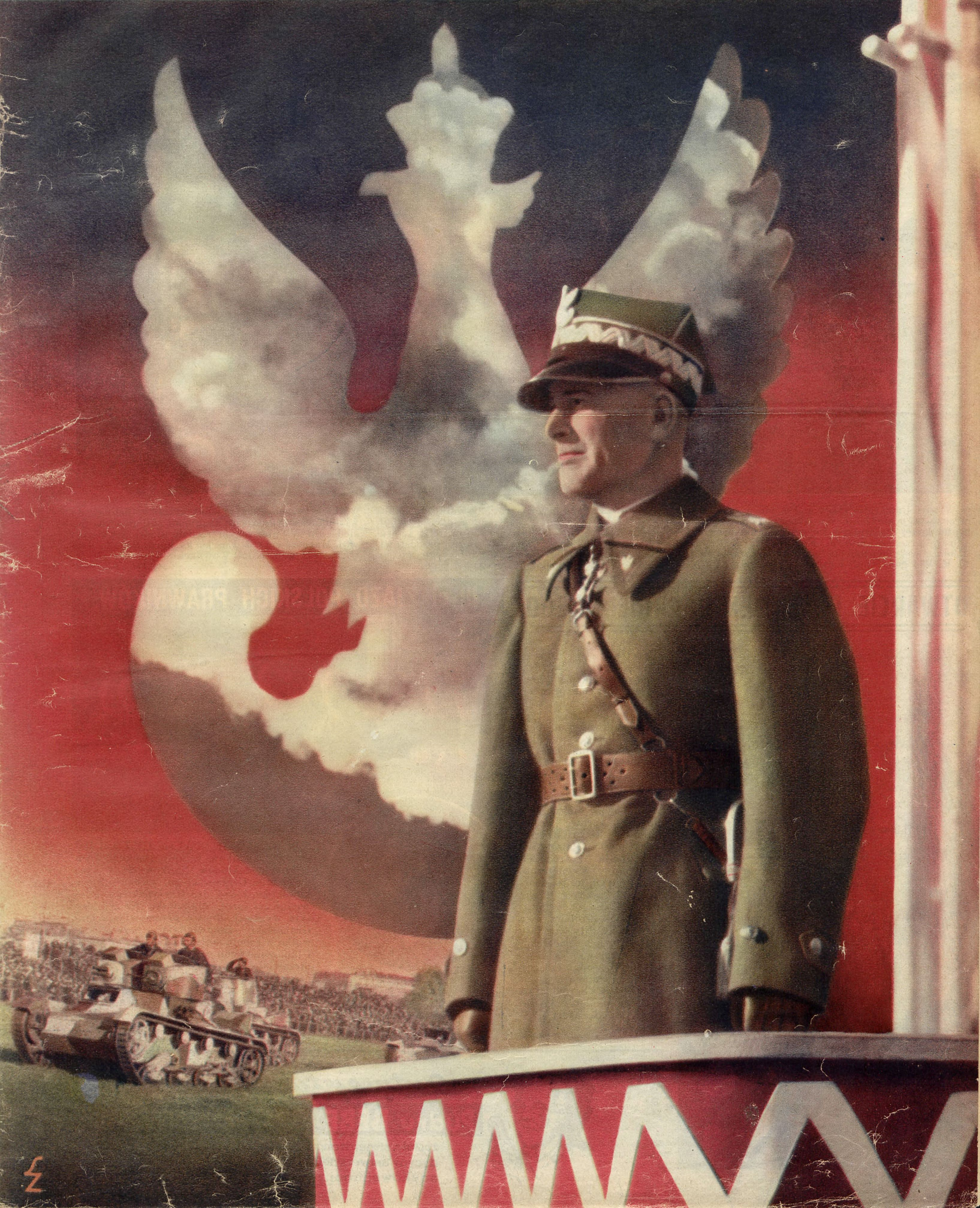 Polish Marshall Edward Rydz-Śmigły on propaganda poster, widely published, mainly in Gazeta Polska, Światowid etc.